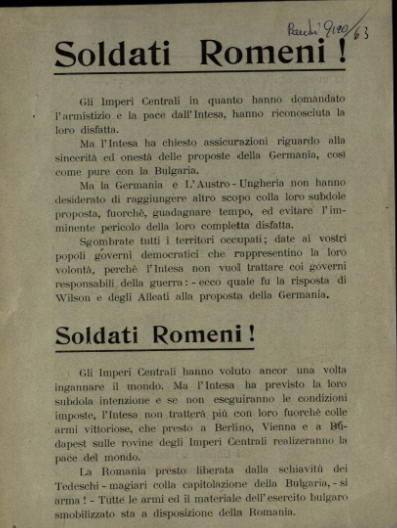 Propaganda poster of Romanian Legion (Italian army unit formed in 1918 by former Austro-Hungarian troops of Romanian nationality); front side